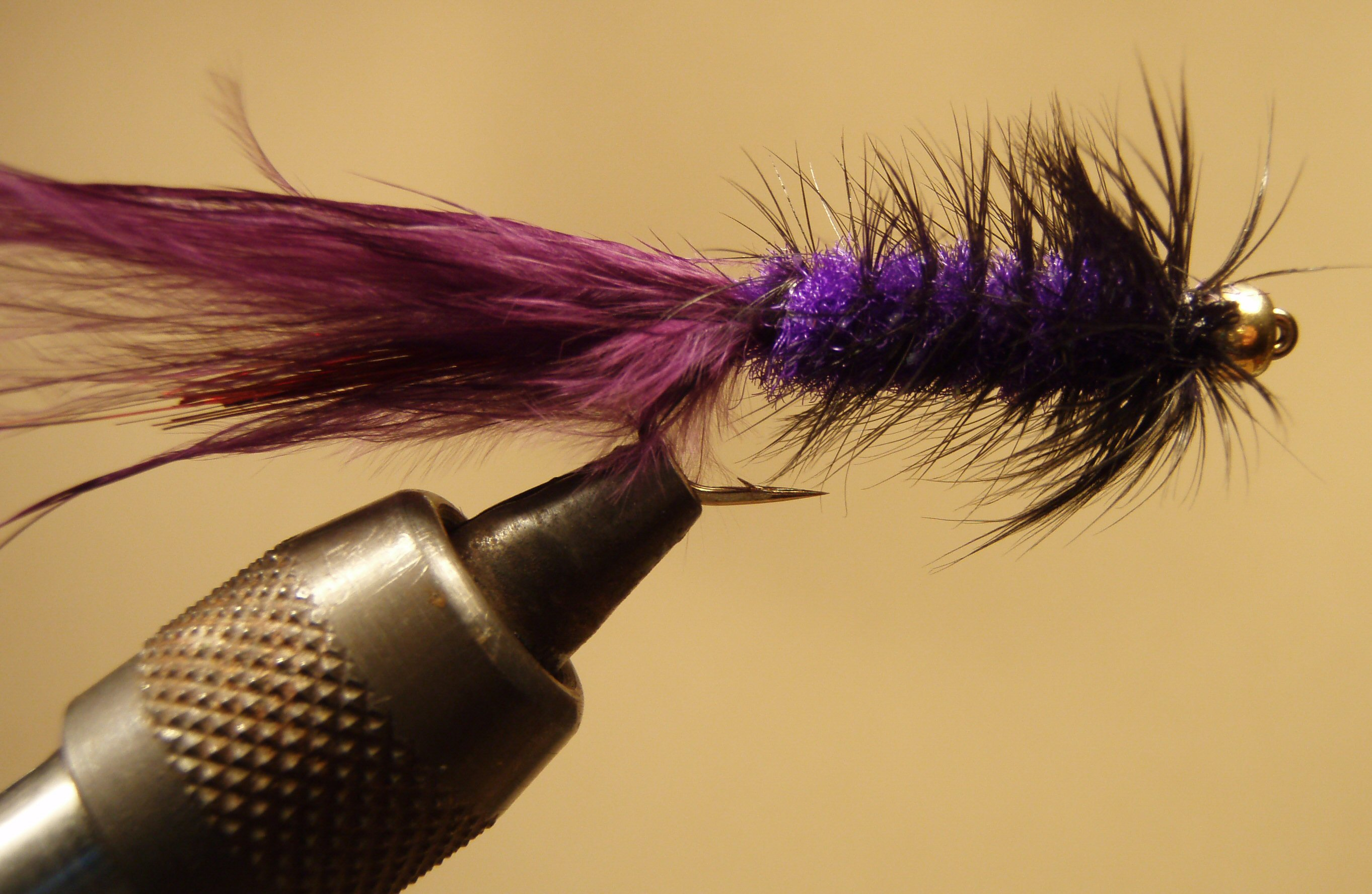 Purple and Black Beadhead Woolly Bugger